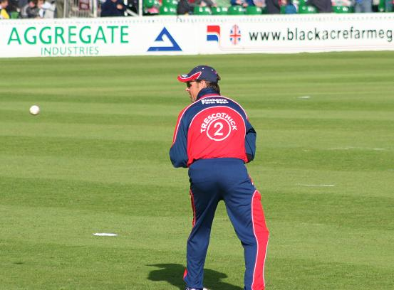 Marcus Trescothick misses a ball while fielding in the slips